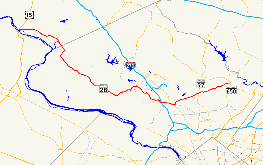 Map of Maryland Route 28